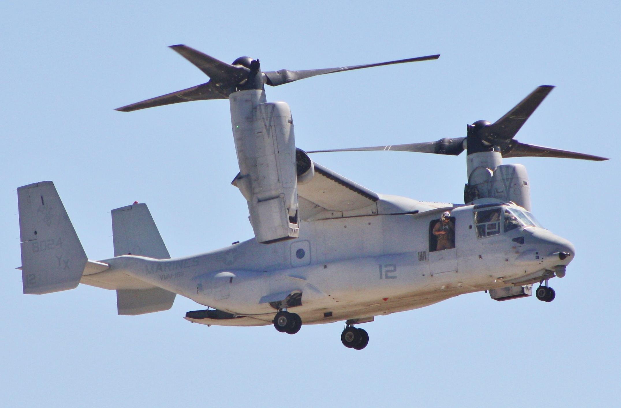 MV-22 MAGTF demo Miramar air station 2014